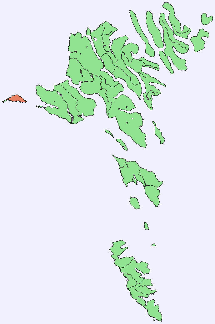 Position of Mykines, Faroe Islands